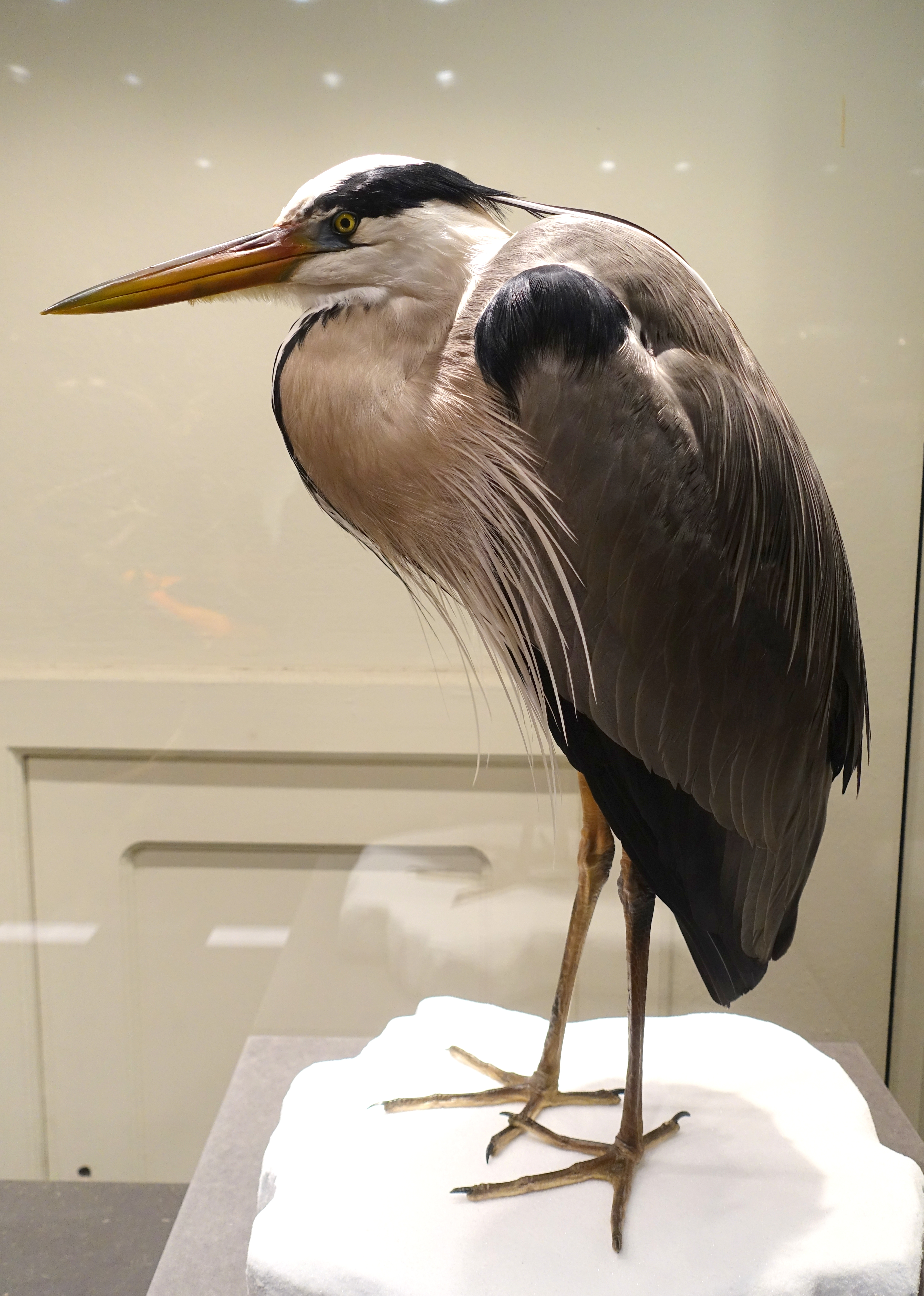 Exhibit in Museum für Naturkunde, Berlin, Germany.